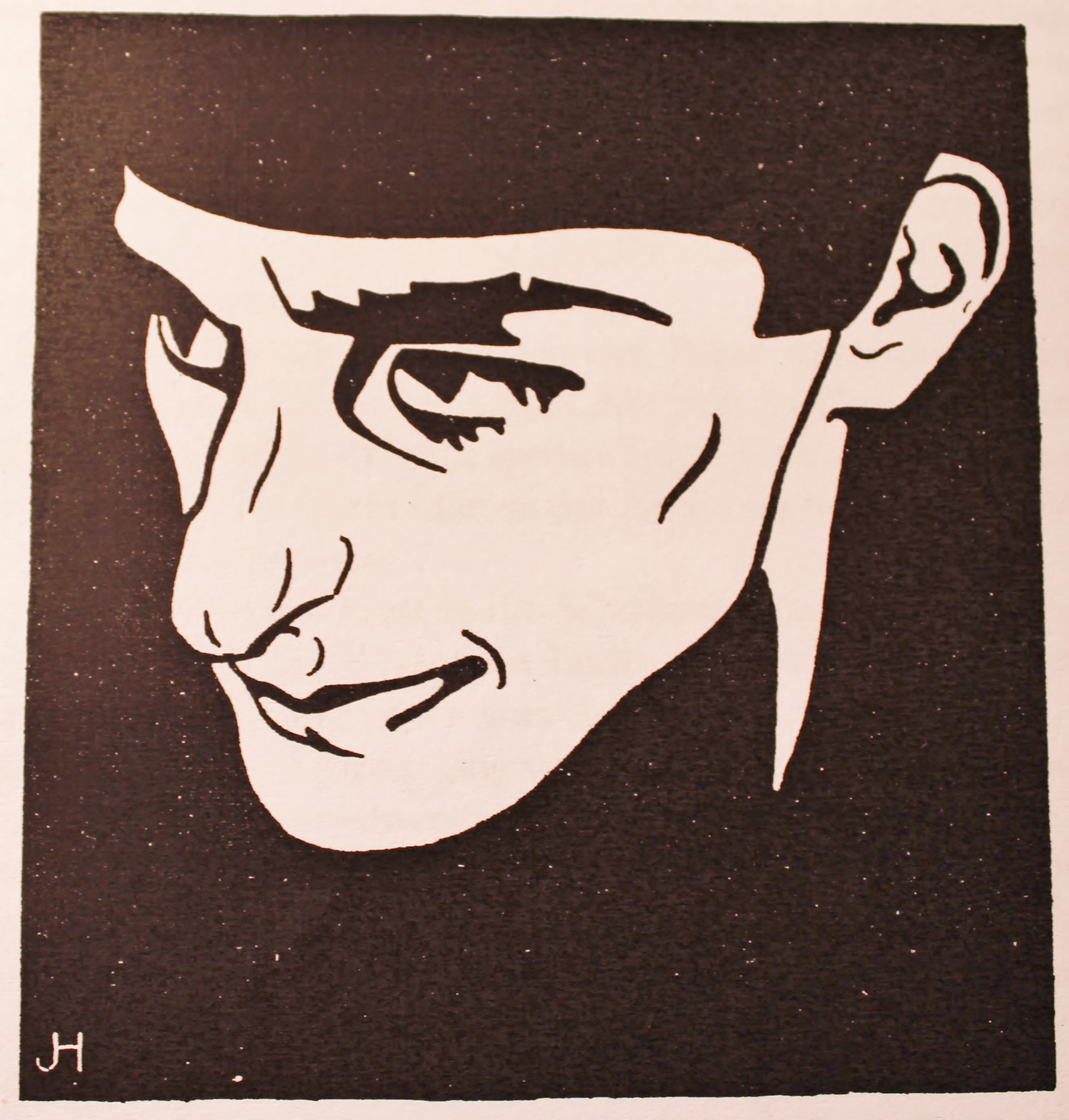 Ferdinand Hardekopf, portrayed by the expressionist Artist John Höxter (1884 - 1938), one of his friends in the Berlin years